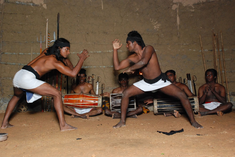 rana bera or drums in angampora martial art